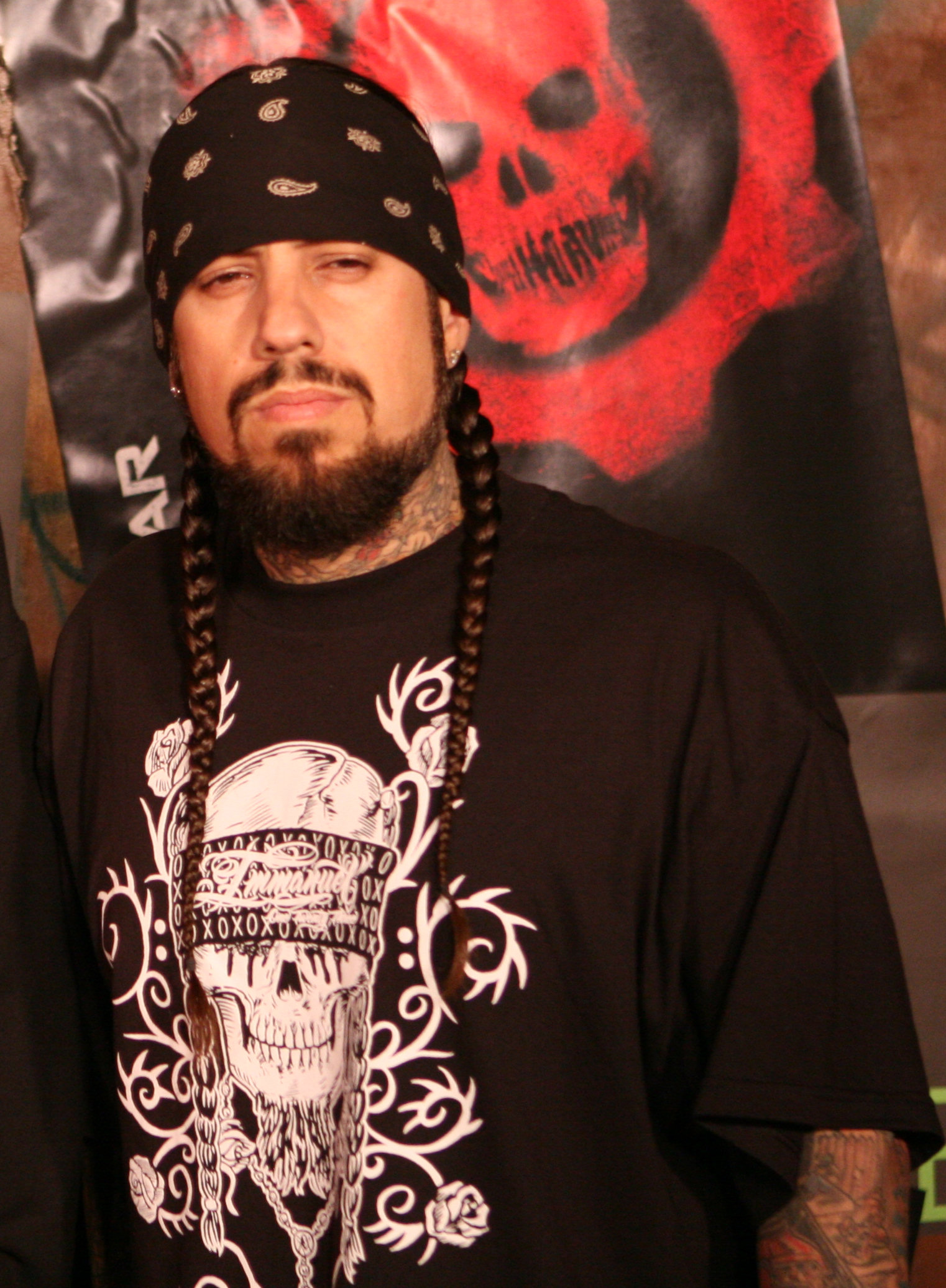 Korn's Reginald "Fieldy" Arvizu at the Gears of War promotional event hosted at the Hollywood Forever Cemetary